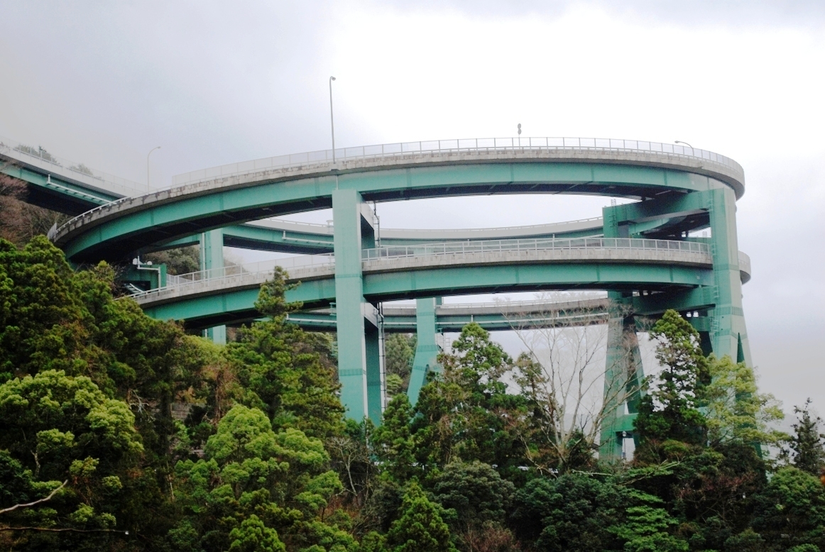 Kawazu nanadaru roopbridge at kawazu town